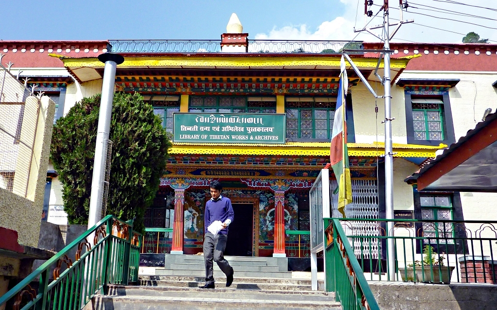 I took this photo on a visit in 2010.